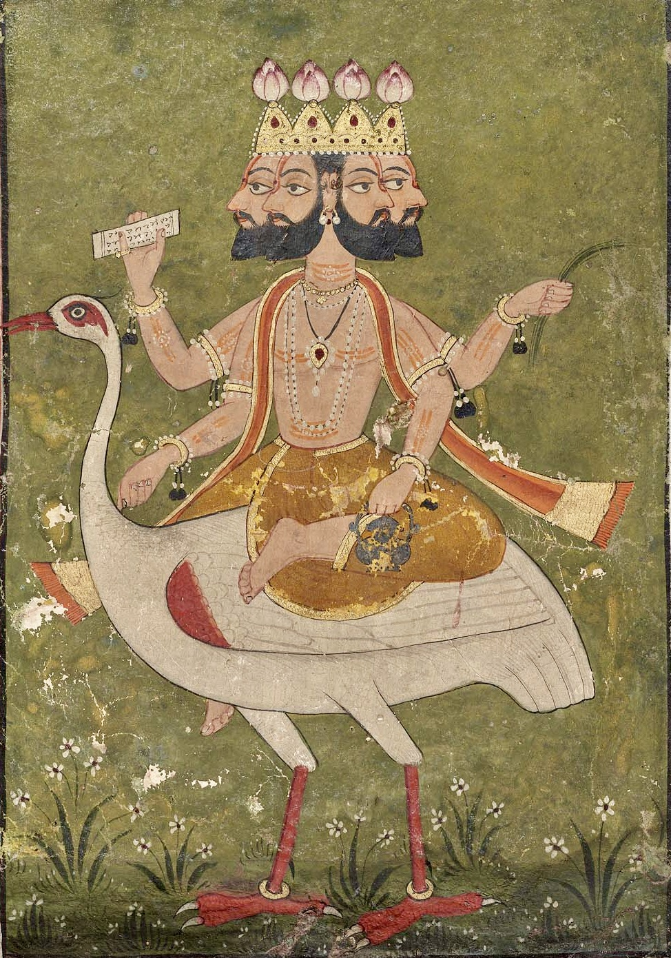 Brahma Indian, Pahari, about 1700 Probably Nurpur, Punjab Hills, Northern India Dimensions Overall: 14 x 9.8 cm (5 1/2 x 3 7/8 in.) Image: 13.4 x 8.8 cm (5 1/4 x 3 7/16 in.) Medium or Technique Opaque watercolor on paper Classification Paintings